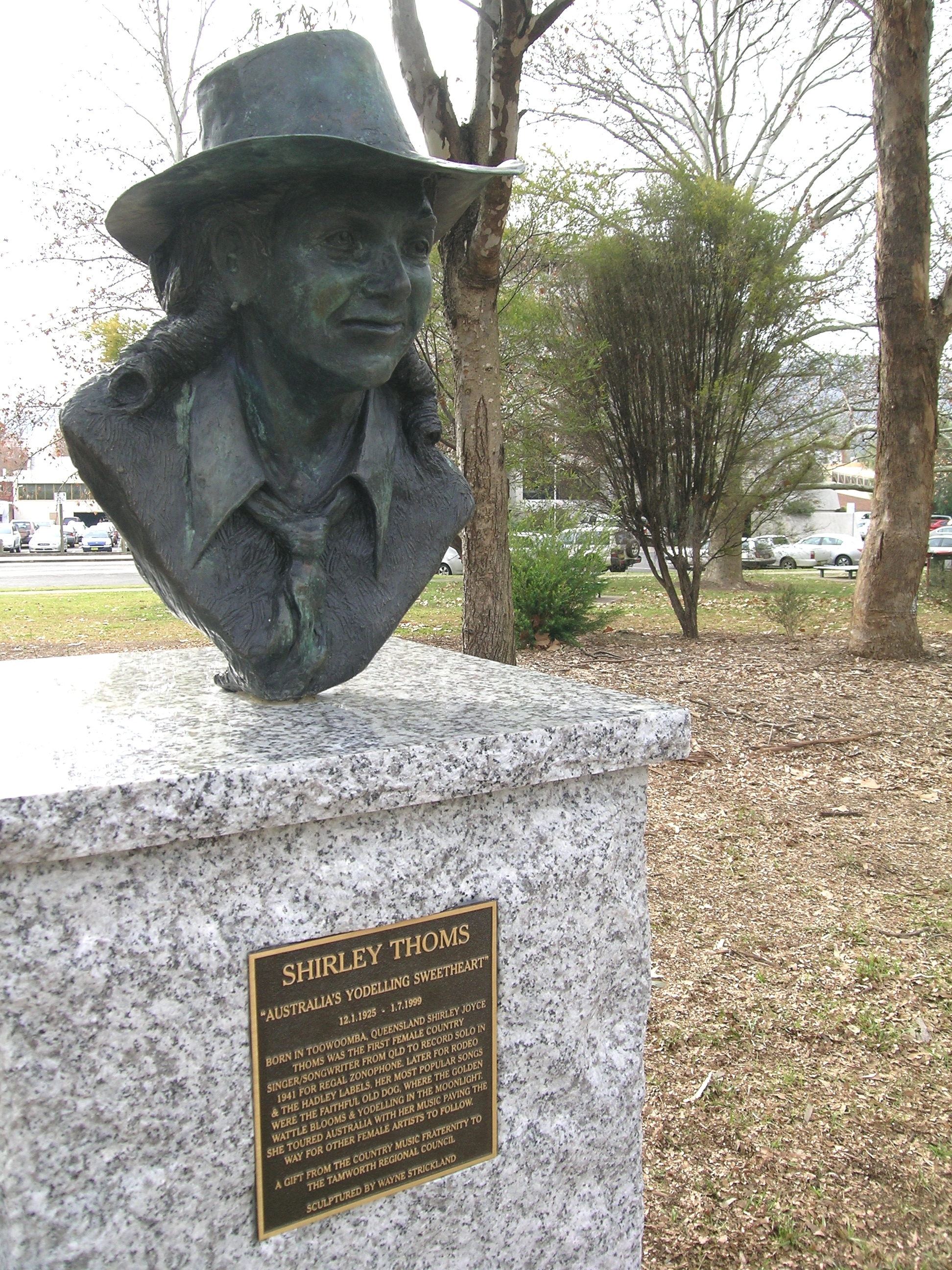 Bust of Shirley Thoms, Bicentennial Park, Tamworth, NSW.